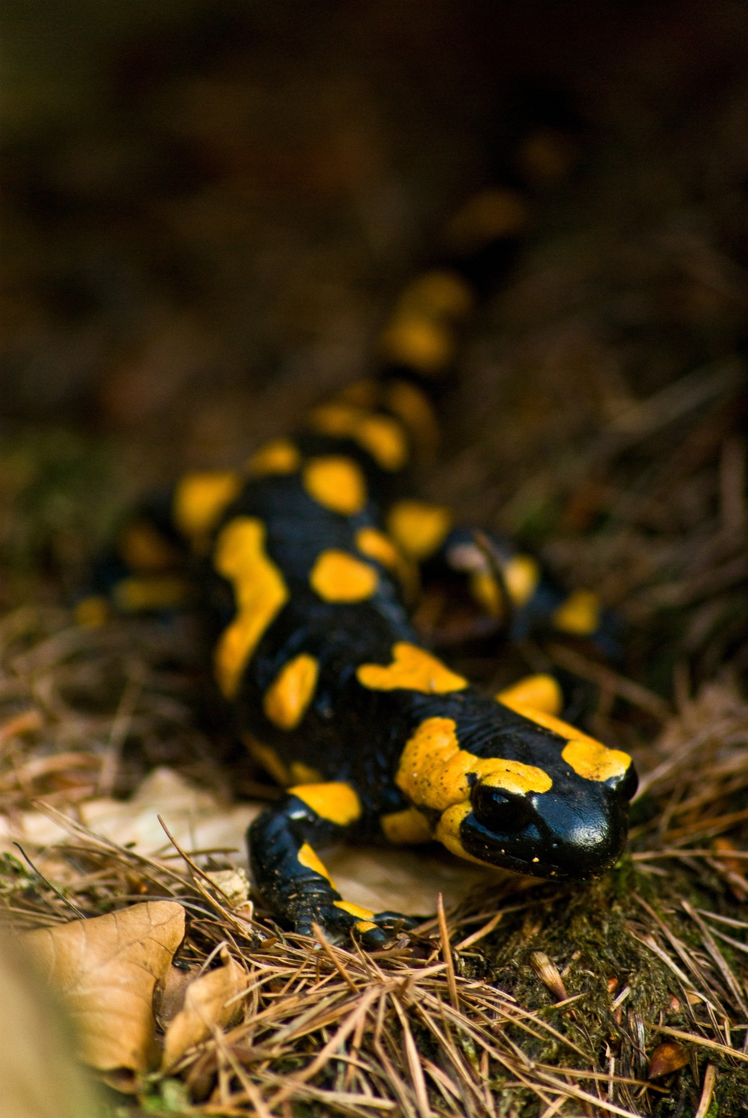 Fire salamander (Salamandra salamandra)